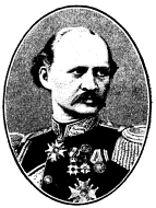 Klas Fredrik Hugo Raab (1831-1881), Swedish Major-General and baron, organizer of the Swedish General Staff and reformer of higher officer's education in the Swedish Army.